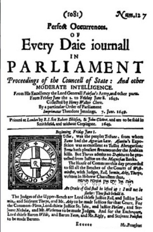 London newspaper from the English Civil War Period (this issue, 7 June 1649)